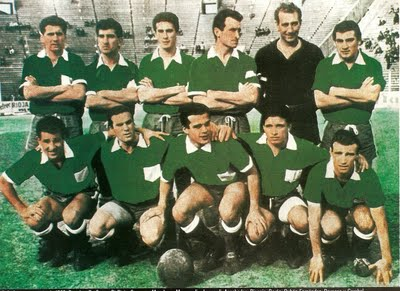 Ferro Carril Oeste squad for the 1963 season